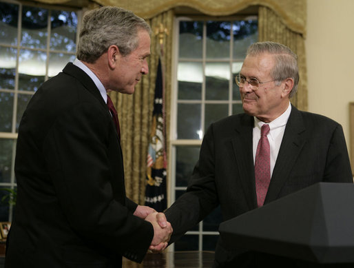 President George W. Bush shakes the hand of outgoing Secretary of State Donald Rumsfeld Wednesday, Nov. 8, 2006, in the Oval Office where the President announced the Secretary's resignation and his intention to nominate Dr. Robert Gates as successor.